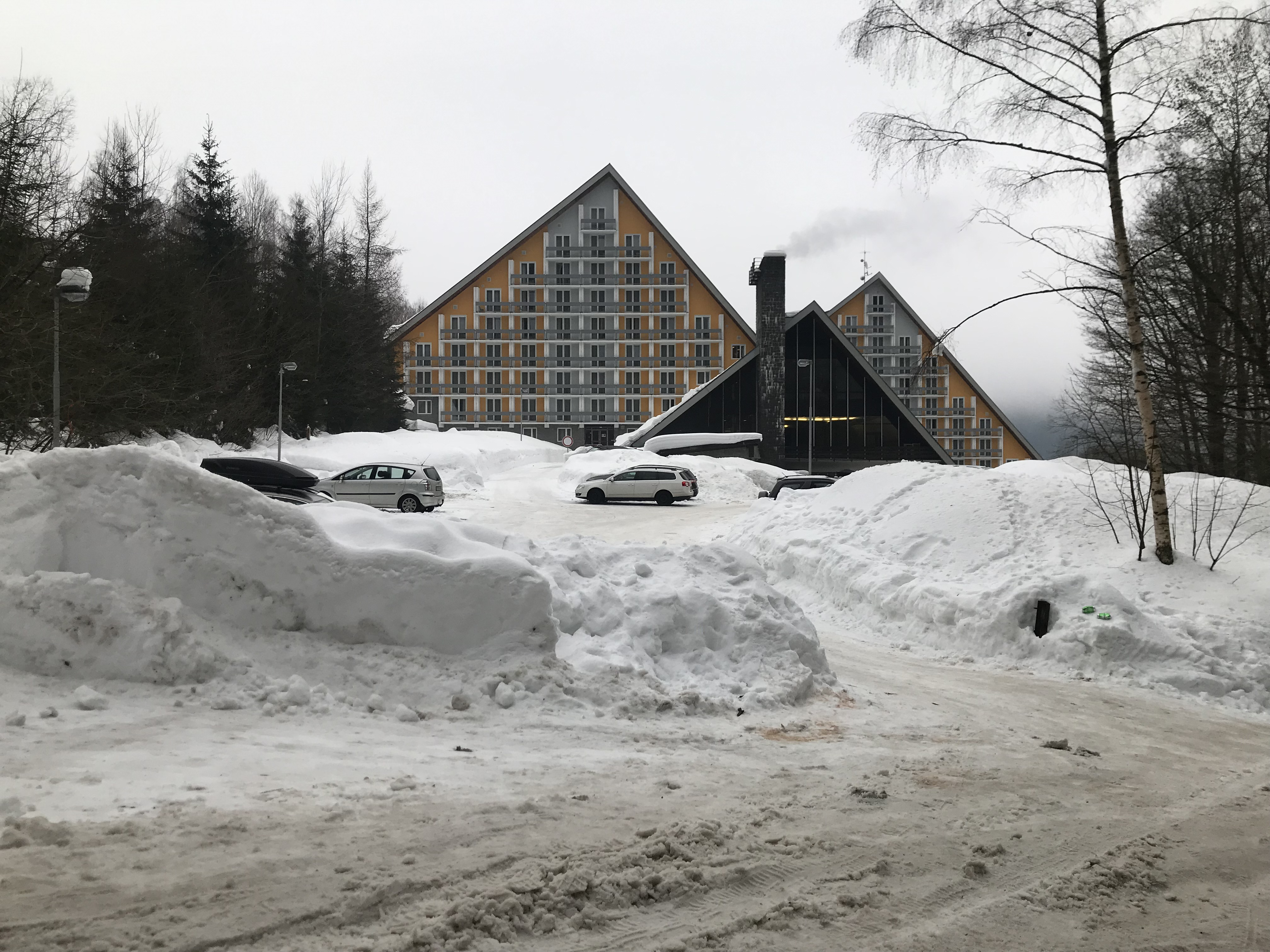 Hotel Clarion **** in Labská, Krkonoše mountains, Czech Republic in 2019